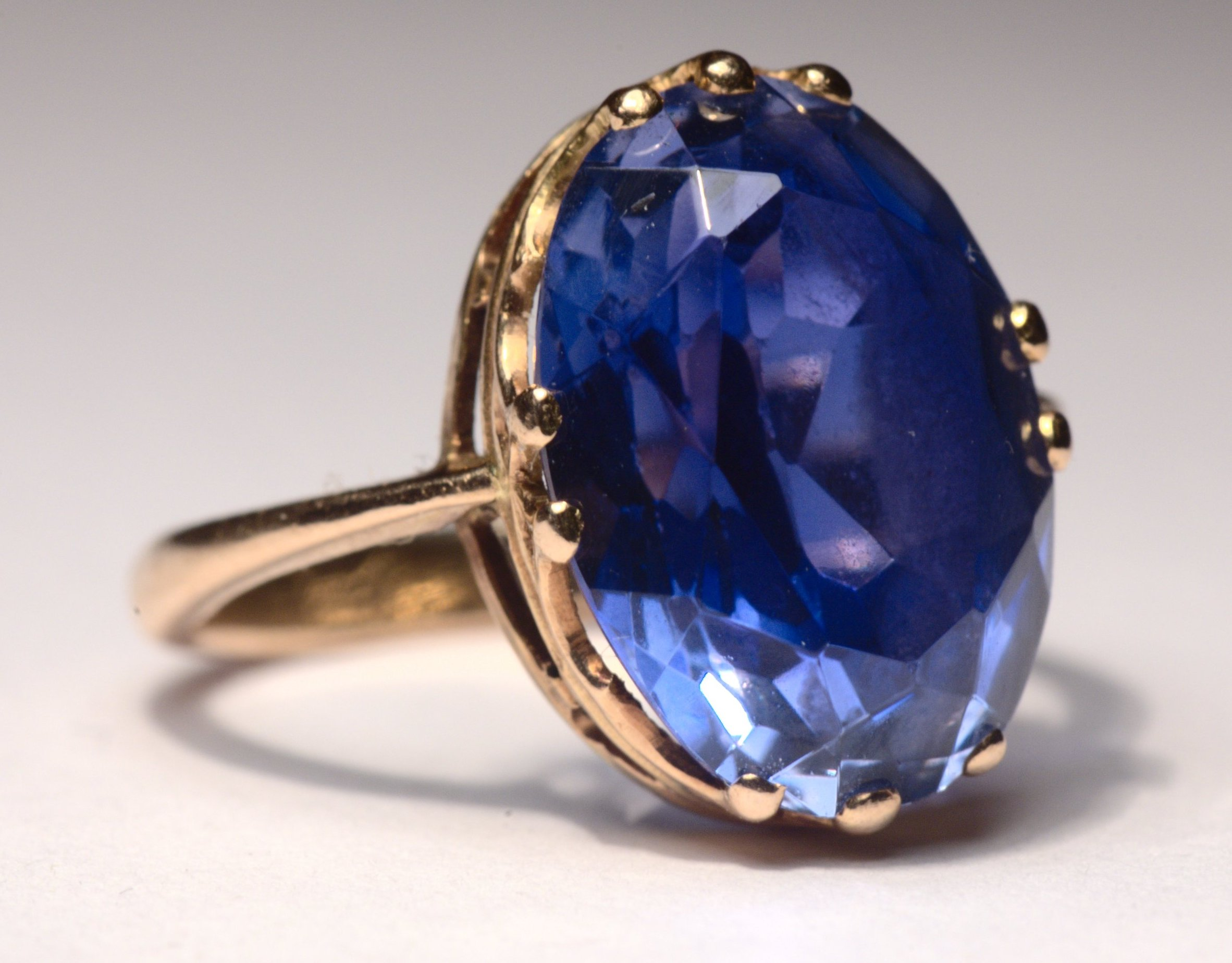 Sapphire ring (made around 1940)